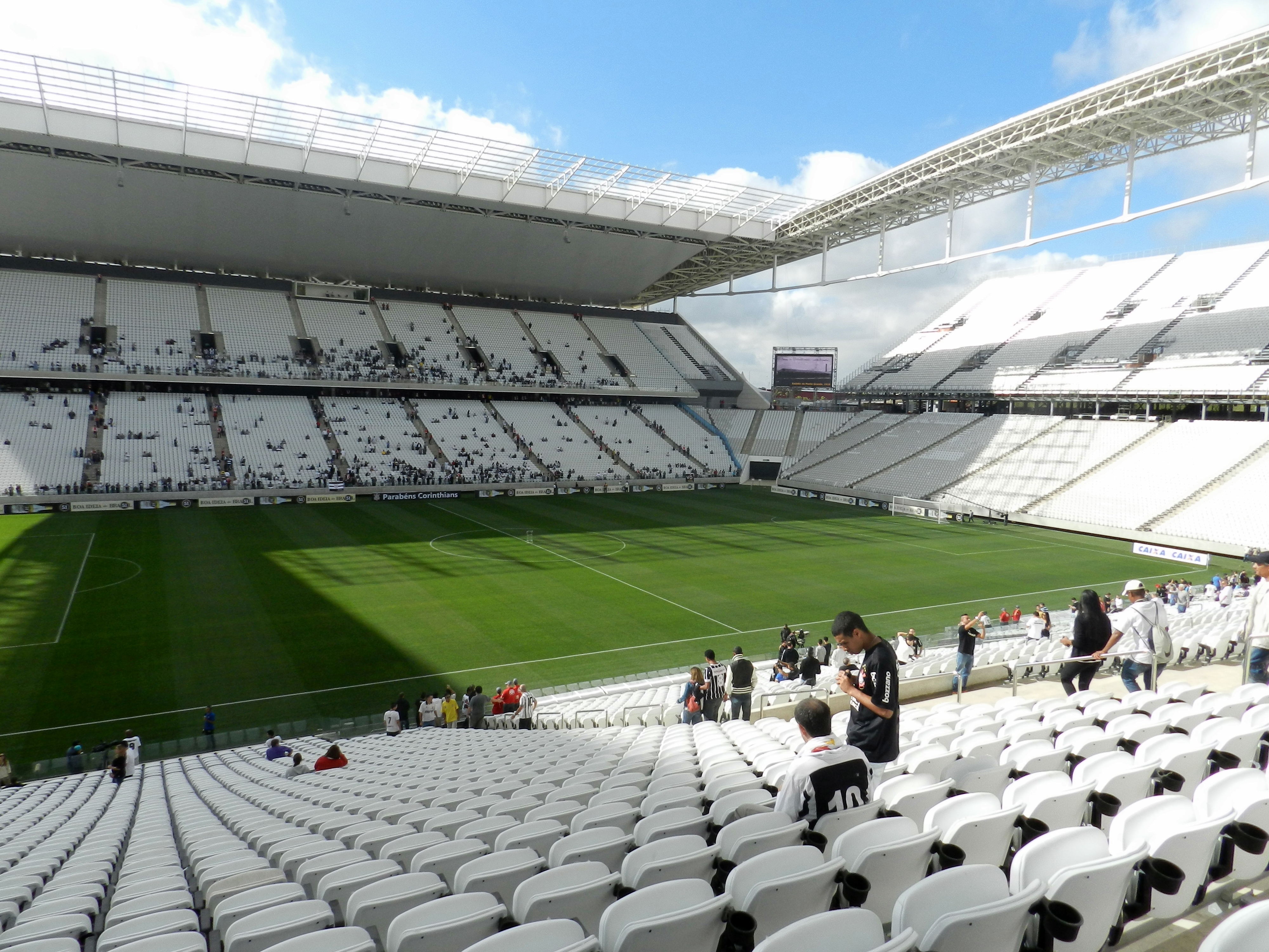 Arena Corinthians Pitch, viewed from the West Side